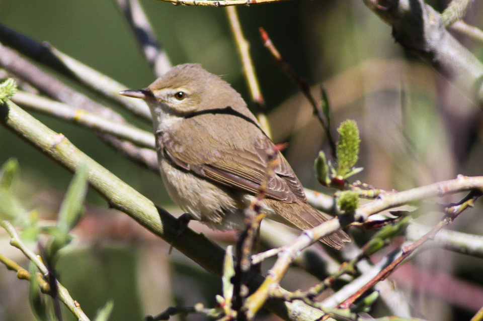 Tien Shan Observatory, Almaty